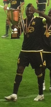 Balima in Moldova Supercup 2015